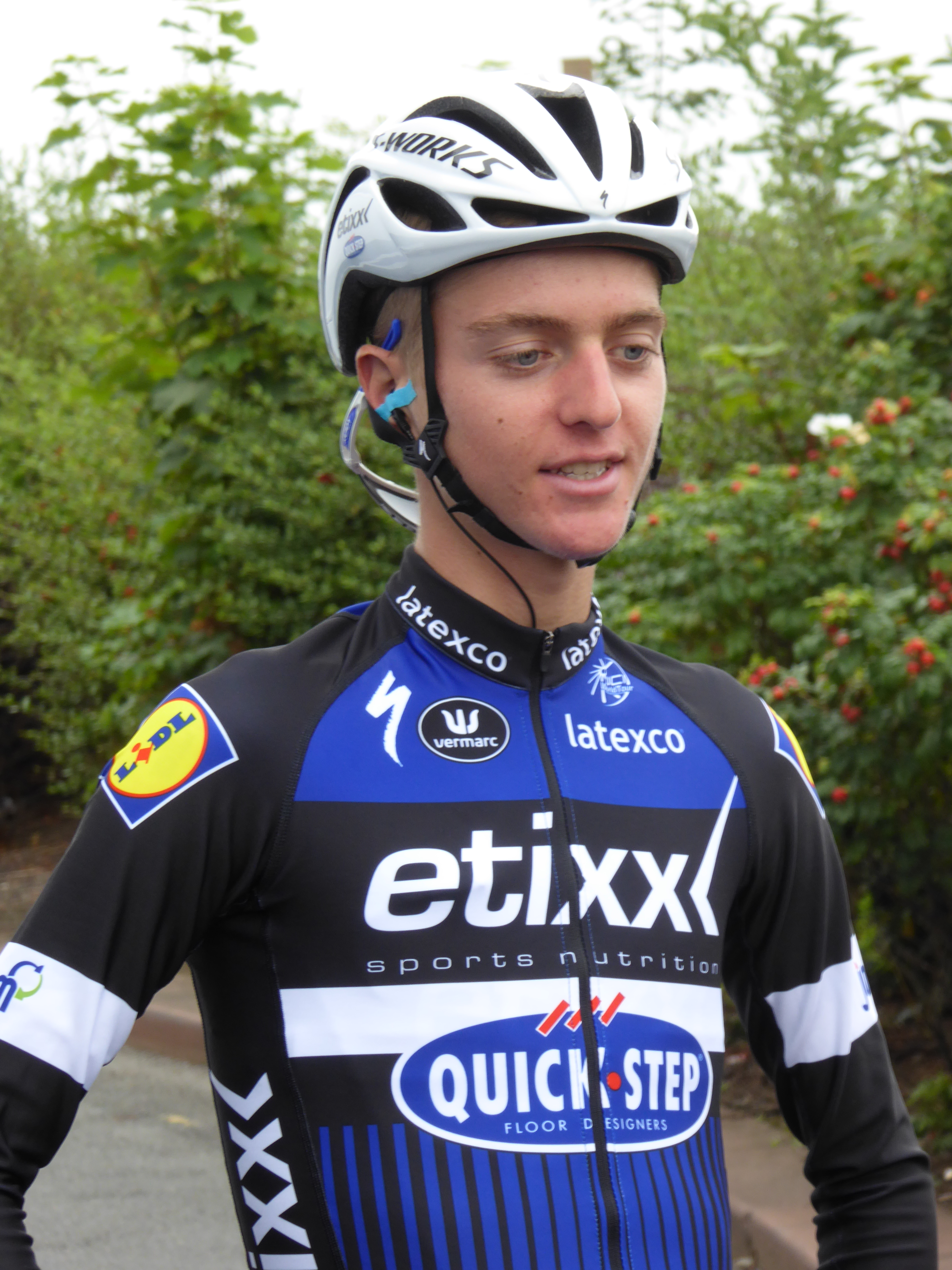 Adrien Costa (Etixx-Quick Step stagiaire), pictured before Stage 2 of the 2016 Tour of Britain in Carlisle on 5 September 2016.